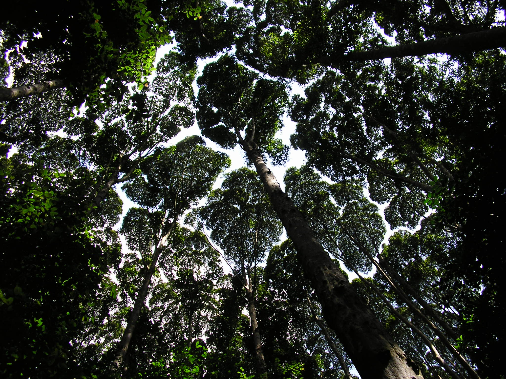 Rain forest canopy at the Forestry Research Institute Malaysia, showing the effects of "crown shyness" in the Kapur trees (Dryobalanops aromatica)